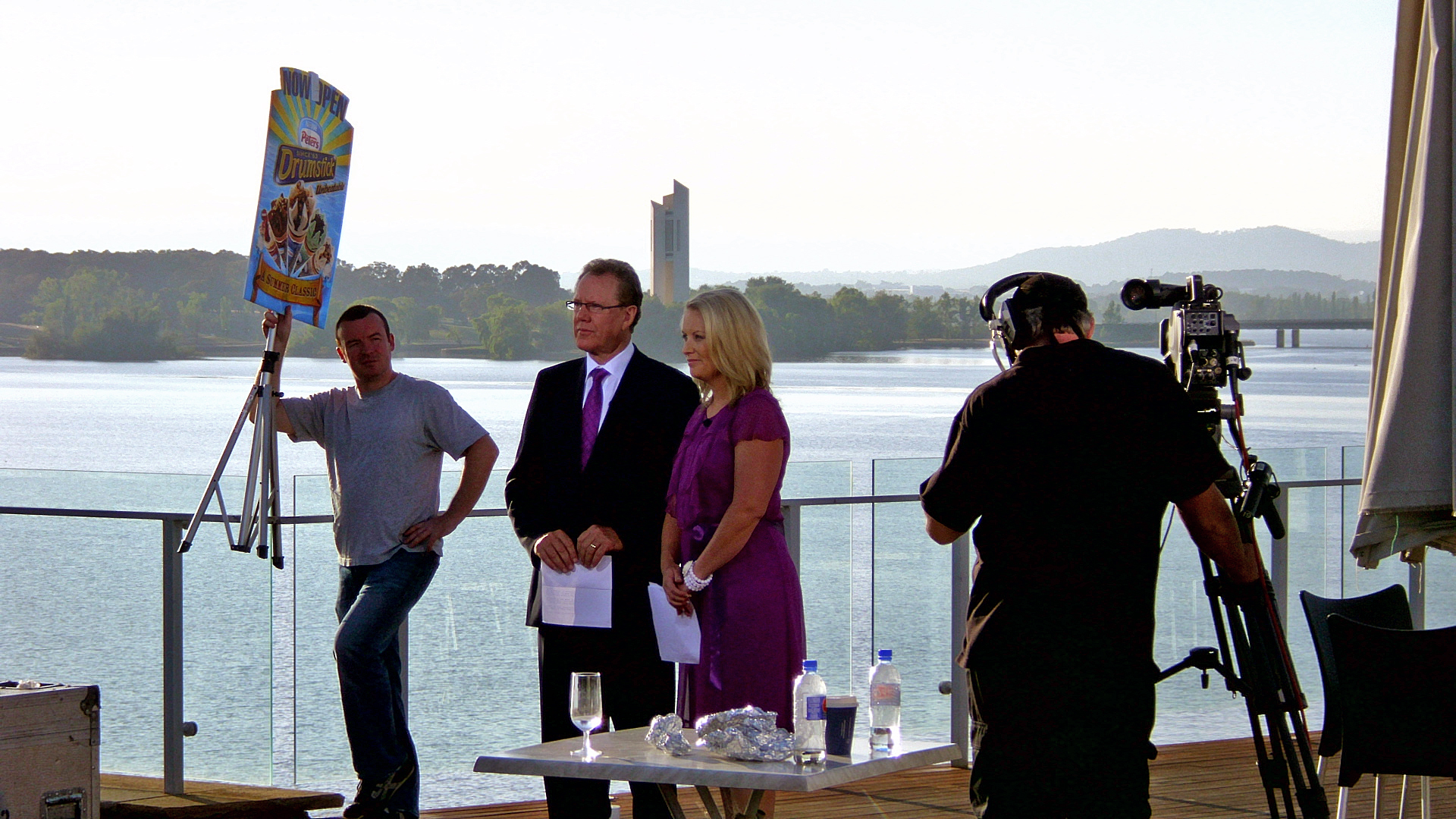 Terry Willesee and Celina Edmonds presenting Sky News Australia from The Deck at Regatta Point in Canberra.